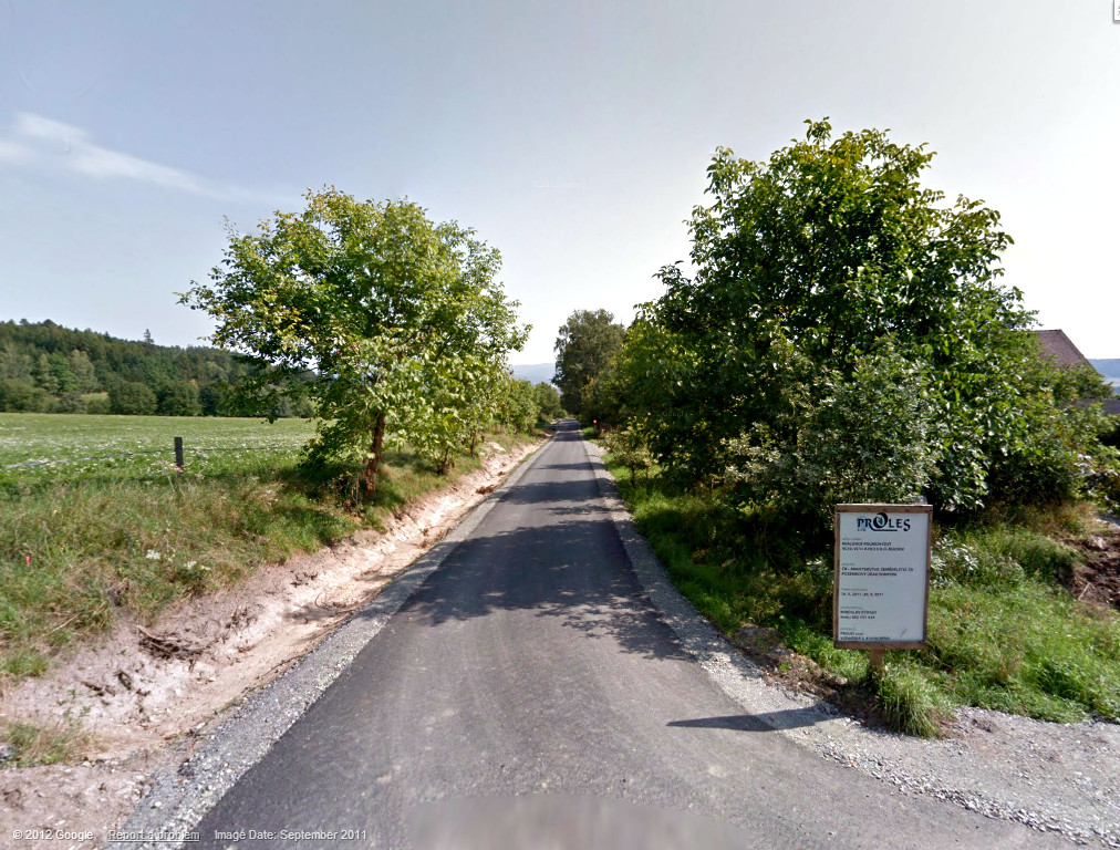 bicycle path in Bludoveček